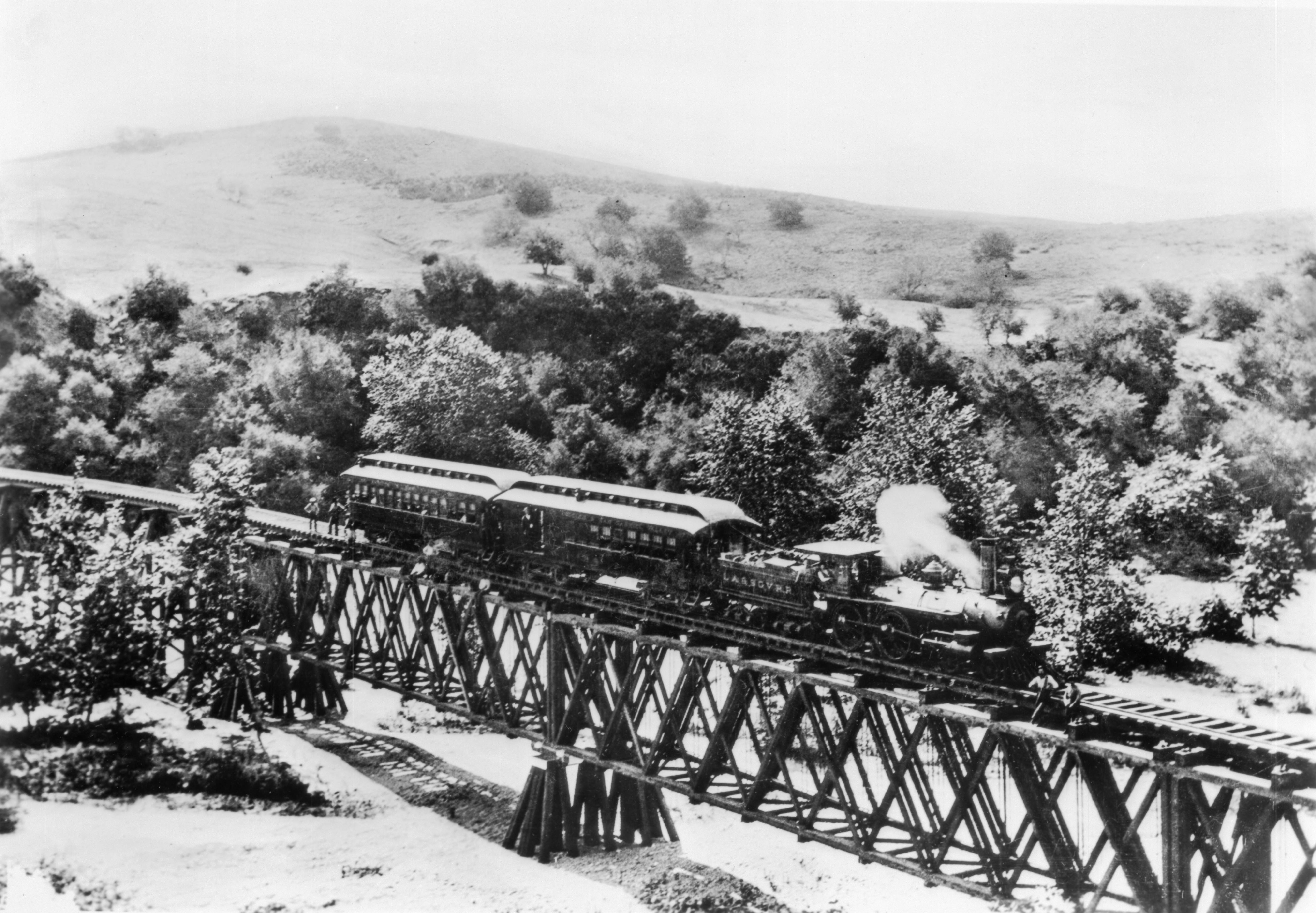 Photograph of a Los Angeles and San Gabriel Railroad train on the bridge at Garvanza, the first trestle across the Arroyo Seco, approaching Highland Park from South Pasadena, ca.1885. The trestle, which was replaced later by the Santa Fe trestle, extends out from the forest, supporting a steam engine trailing two passenger cars behind it. Two men stand on the tracks at back, one with his hand on the last passenger car. Two more men stand to the side of the tracks in front of the engine. Mountains and trees are visible in the background behind the bridge.